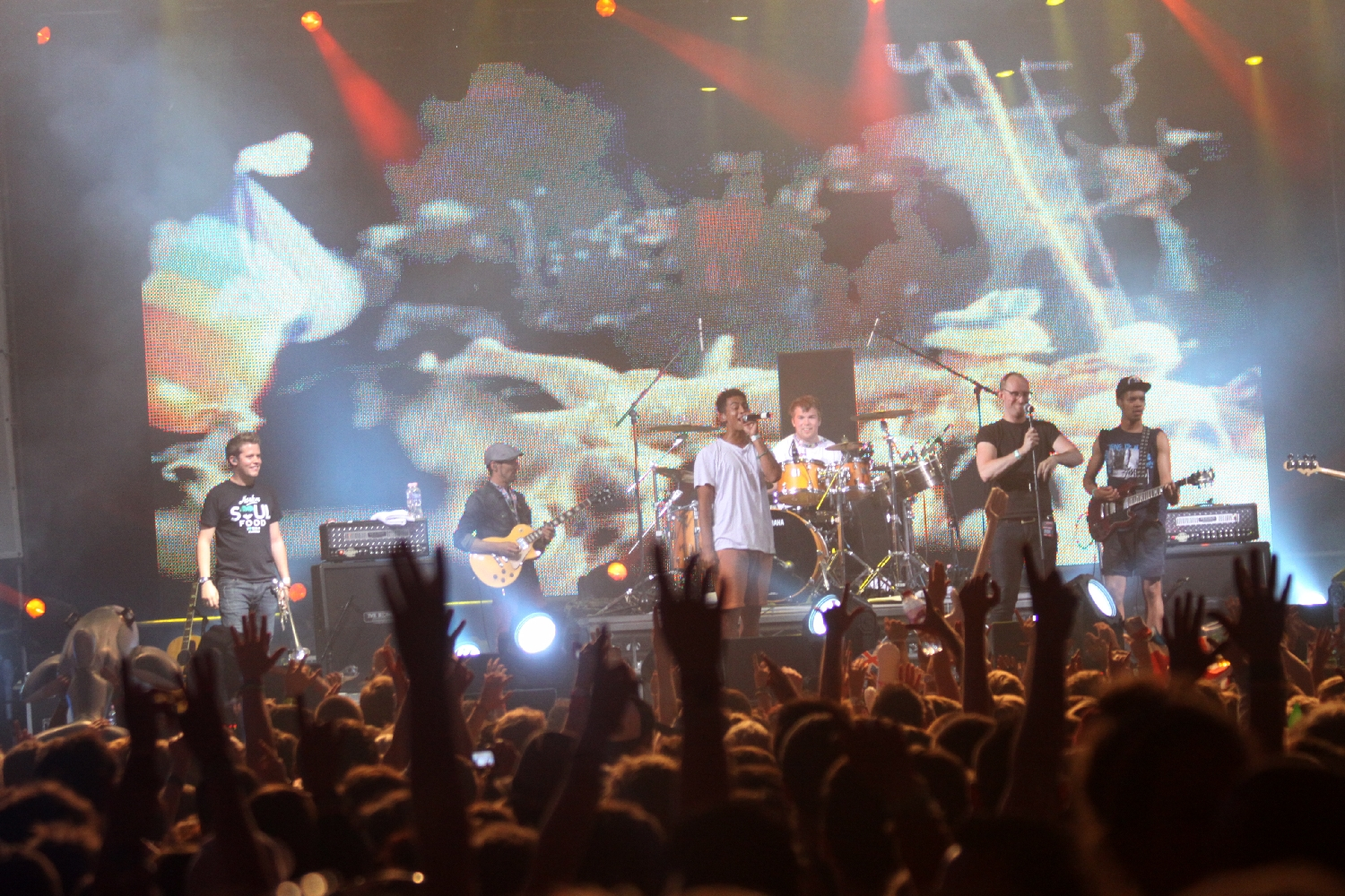 Concierto de Rizzle kicks